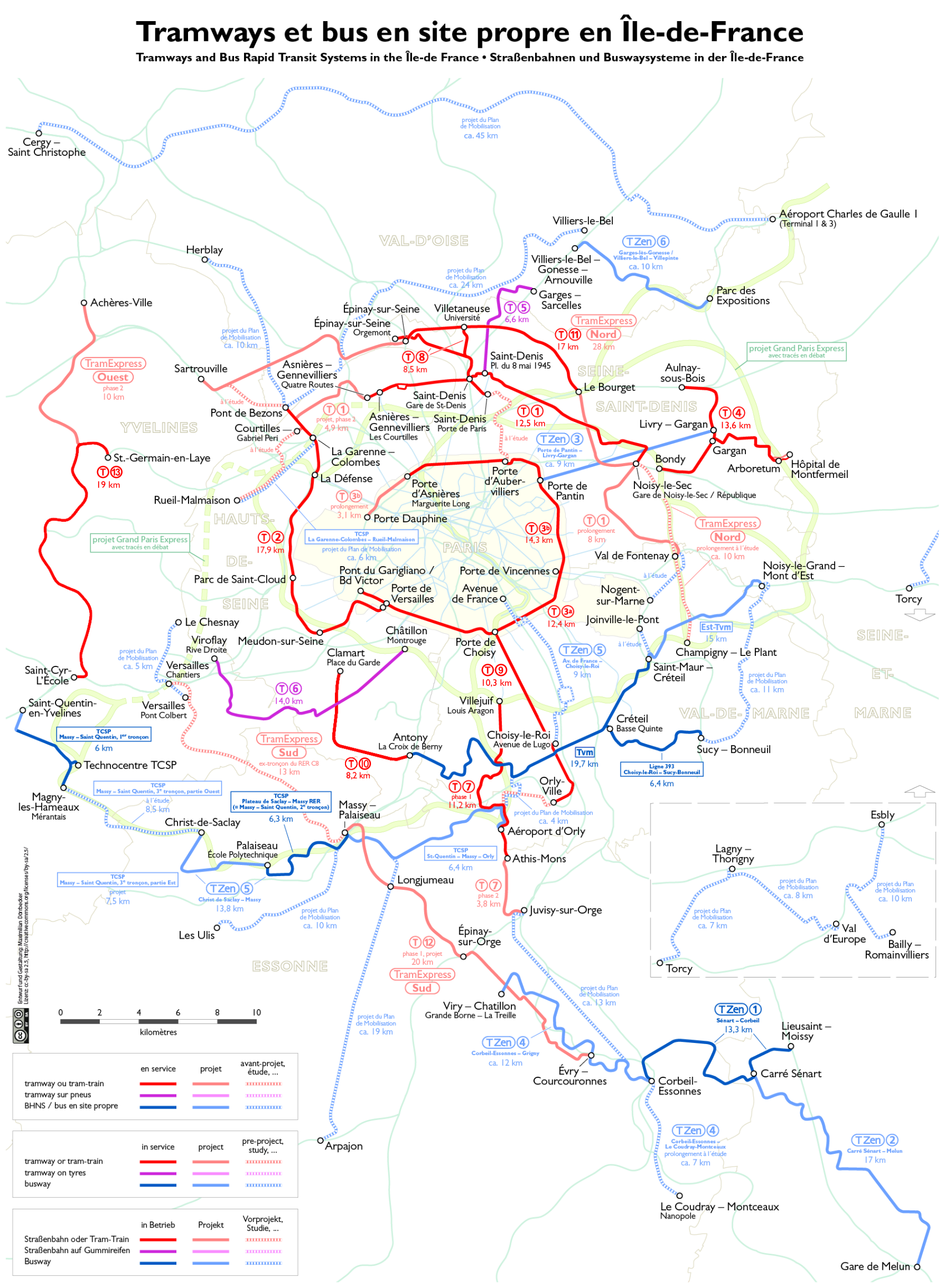 Map of the Île-de-France : Tramways, december 2014